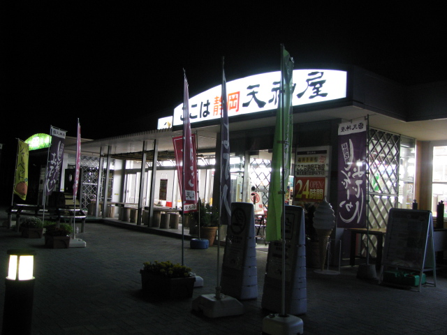 Nihozaka Parking Area on the Tomei Expressway westbound line